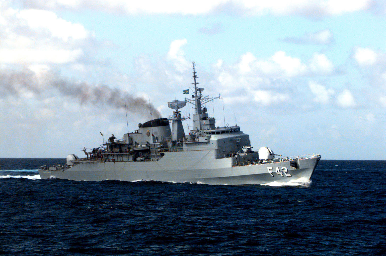 The Brazilian warship BNS CONSTITUICAO (F 42) during phase zero of UNITAS 37-96. UNITAS is an annual operation in which a US Navy task group conducts combined exercises with participating navies.